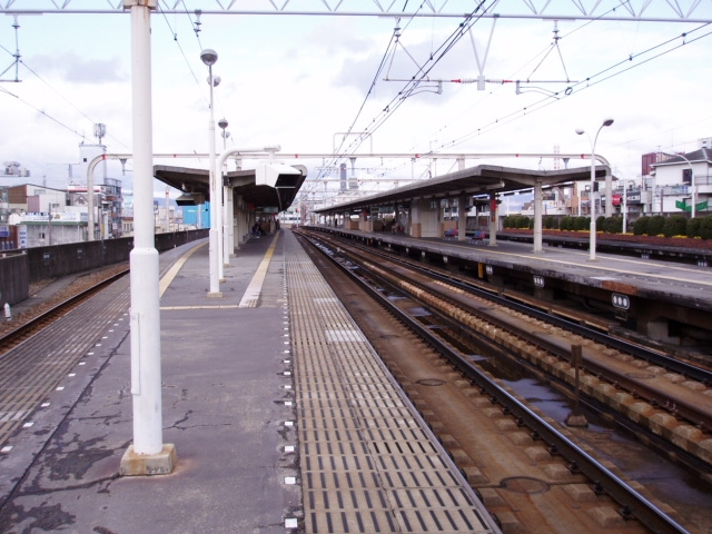 Hankyu Railway Kobe Main Line Sonoda Station Platform 阪急電鉄 神戸本線 園田駅駅名標